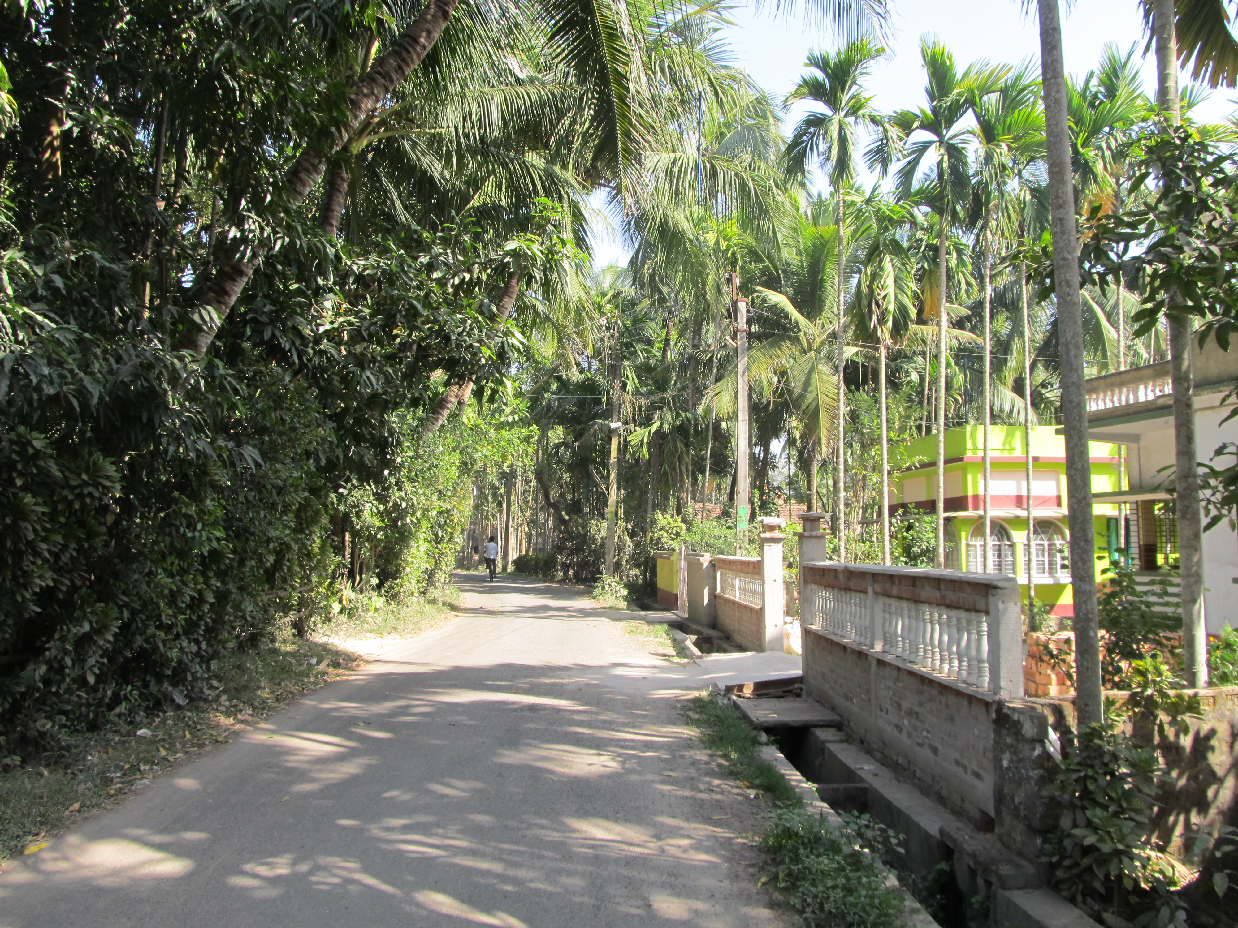 Photographed at Baduria of North 24 Parganas.